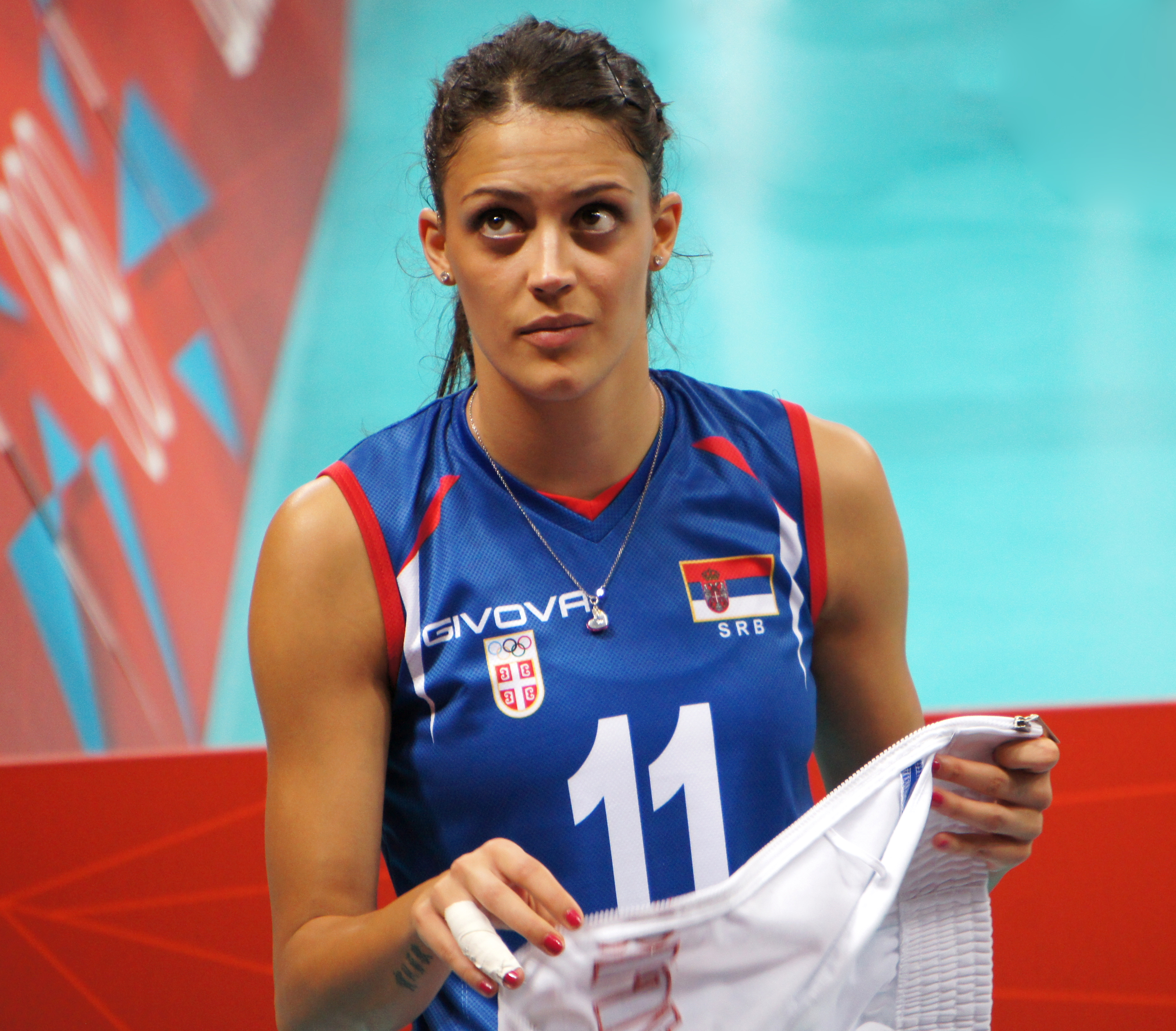 Stefana Veljković playing for Serbian Volleyball team at 2012 Summer Olympics.